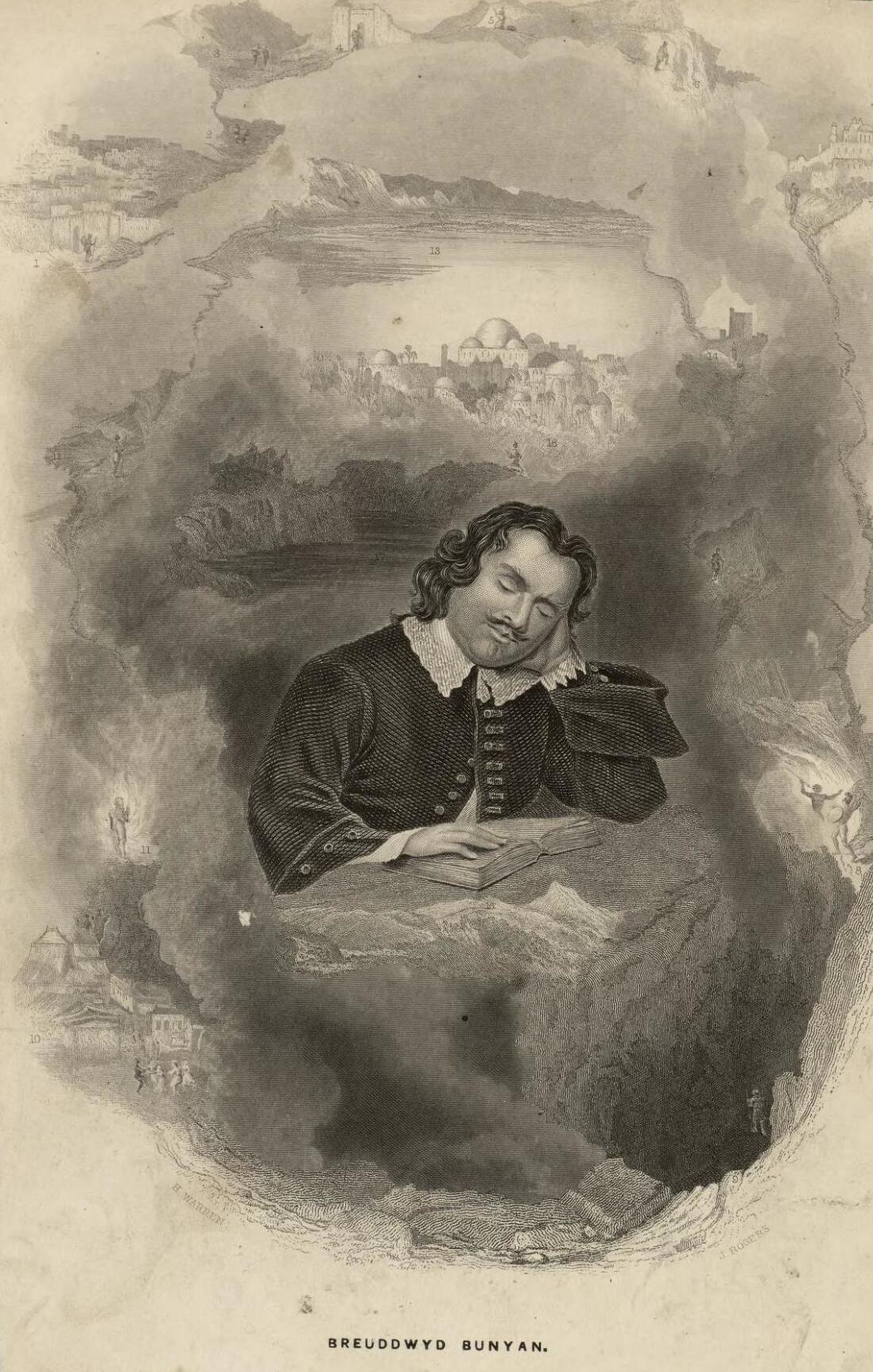 A portrait from the Welsh Portrait Collection at the National Library of Wales. Depicted person: John Bunyan – English Christian writer and preacher